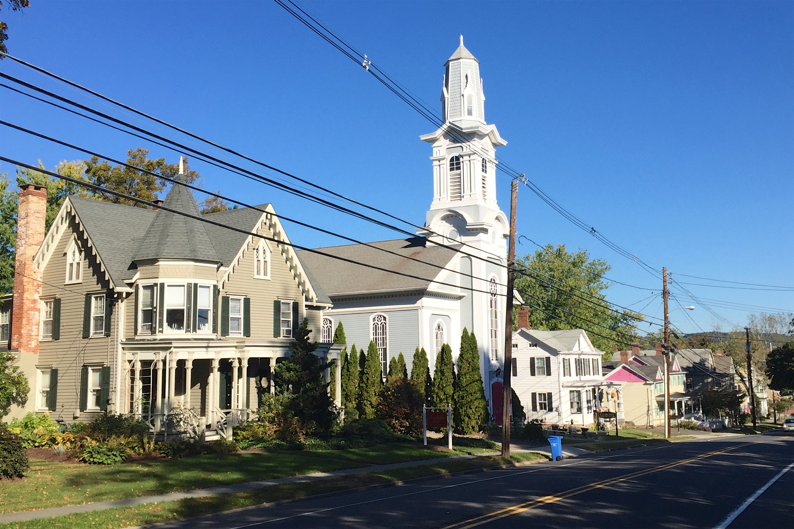 View of Main Street, looking north, in Oldwick, New Jersey. Pivotal contributing properties of the Oldwick Historic District, the Charles E. Dickerson House and the Oldwick Methodist Church, are featured on the left in the foreground.